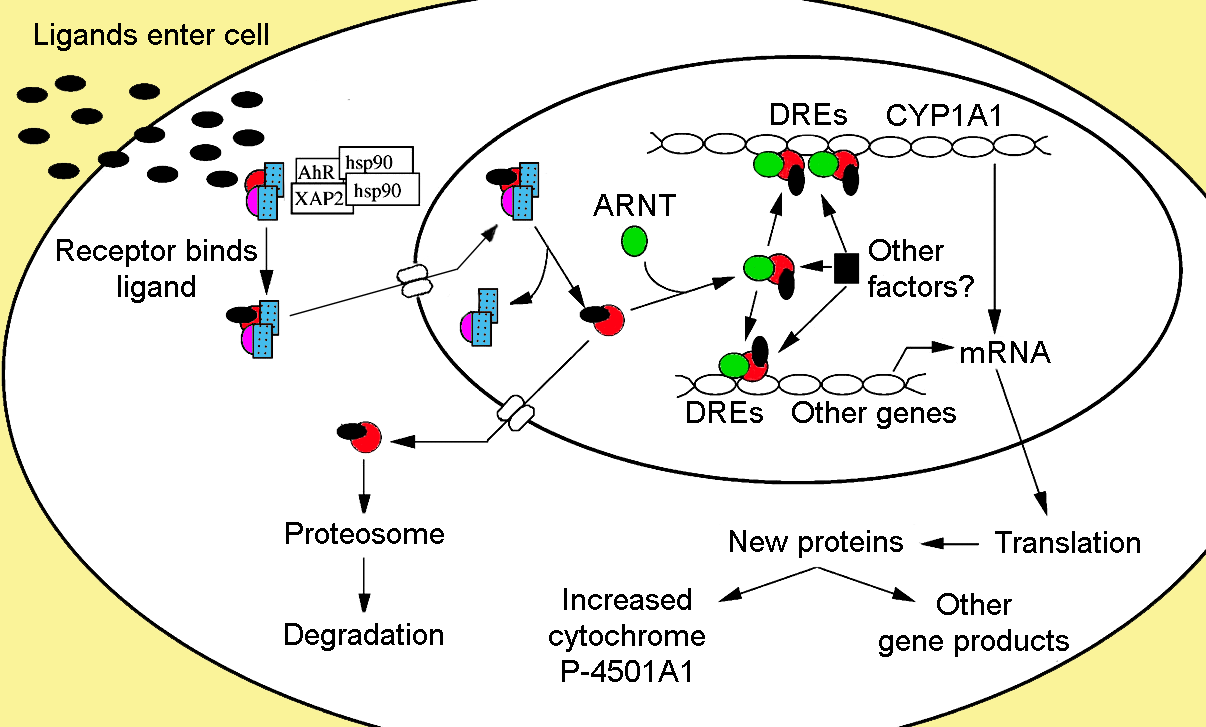 Pathway of activation of the aryl hydrocarbon receptor and the responses trigged by this pathway.